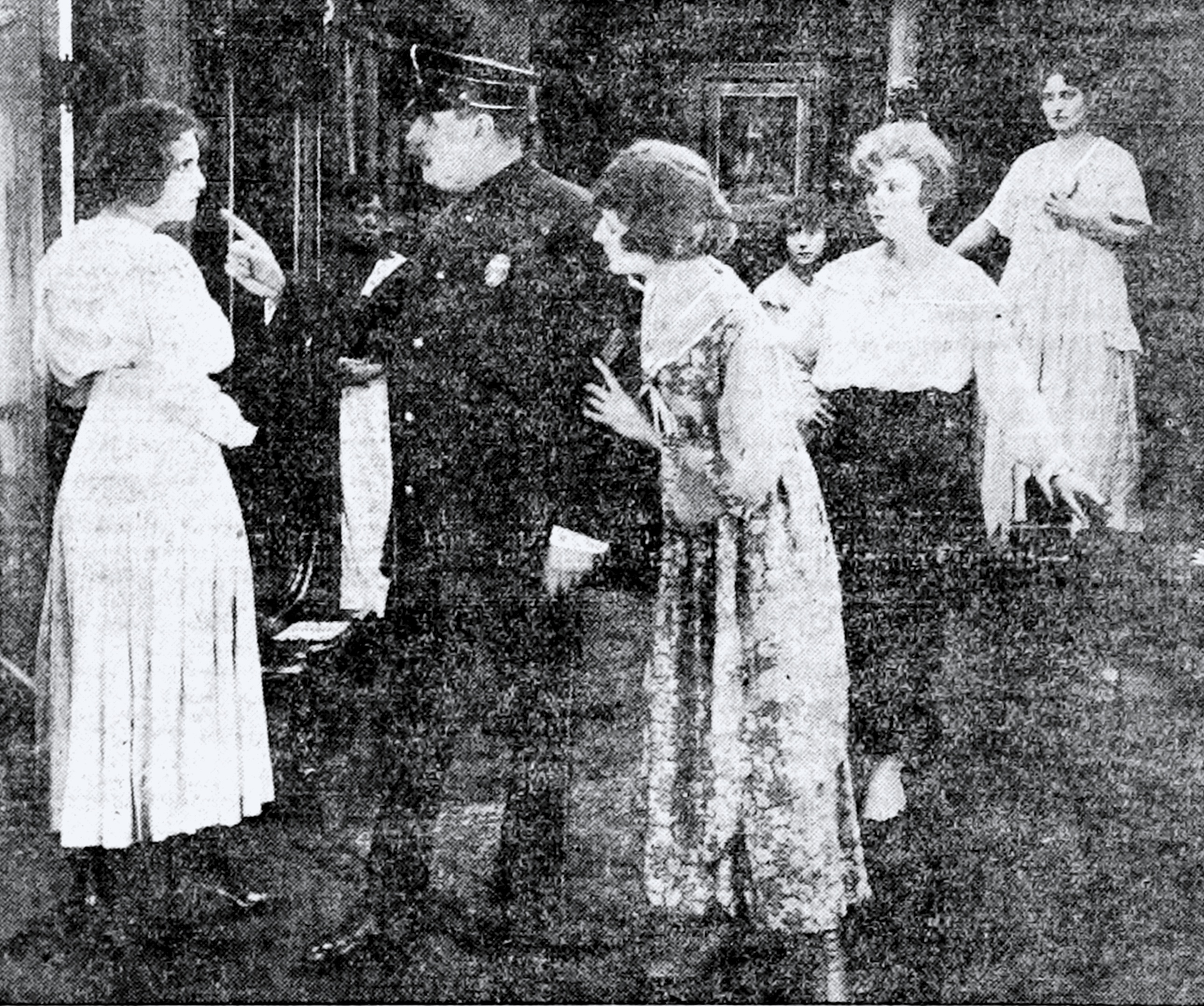 Scene from the film Who's Your Neighbor? as published in a contemporary newspaper.